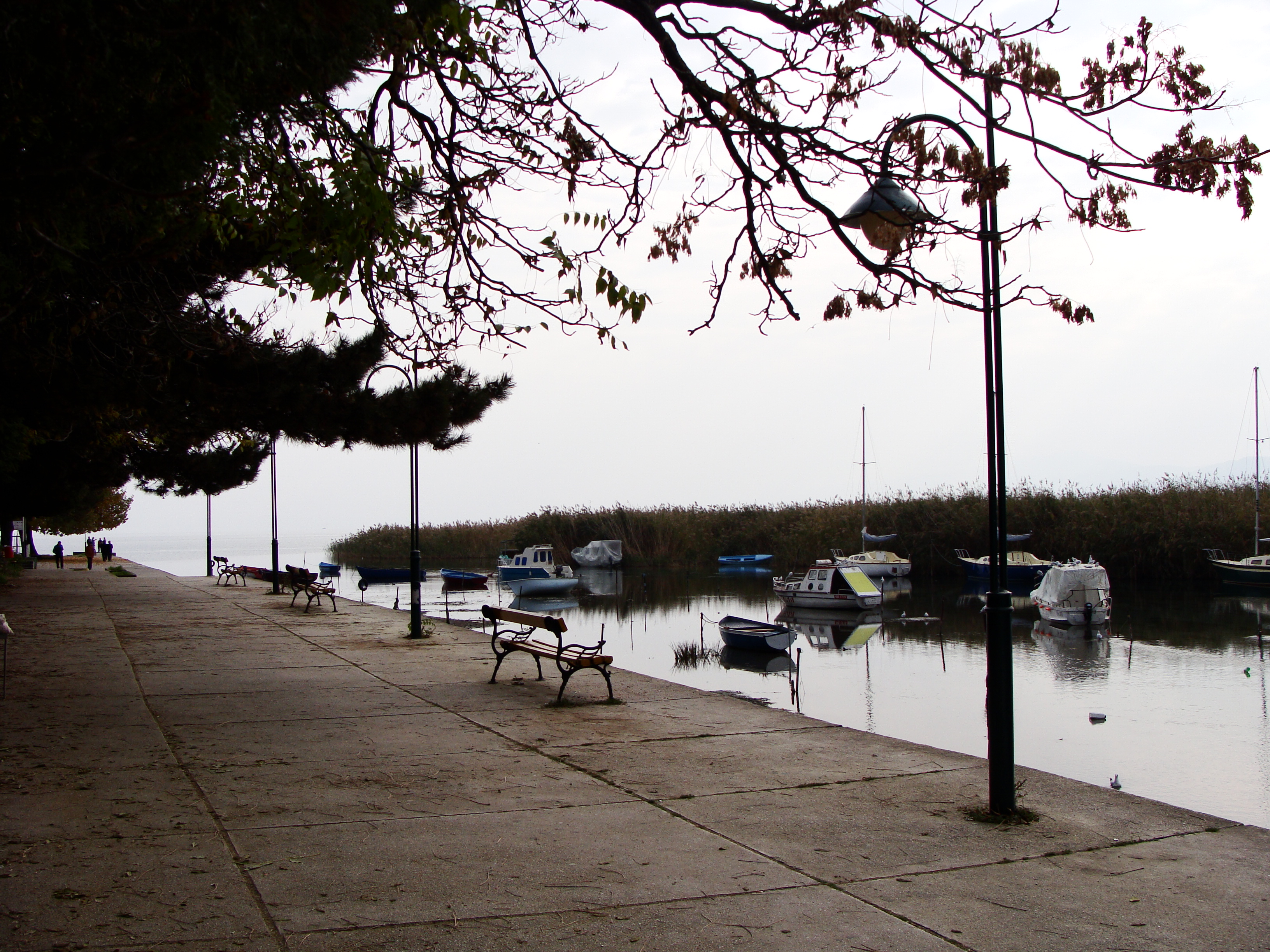 Struga, Marina